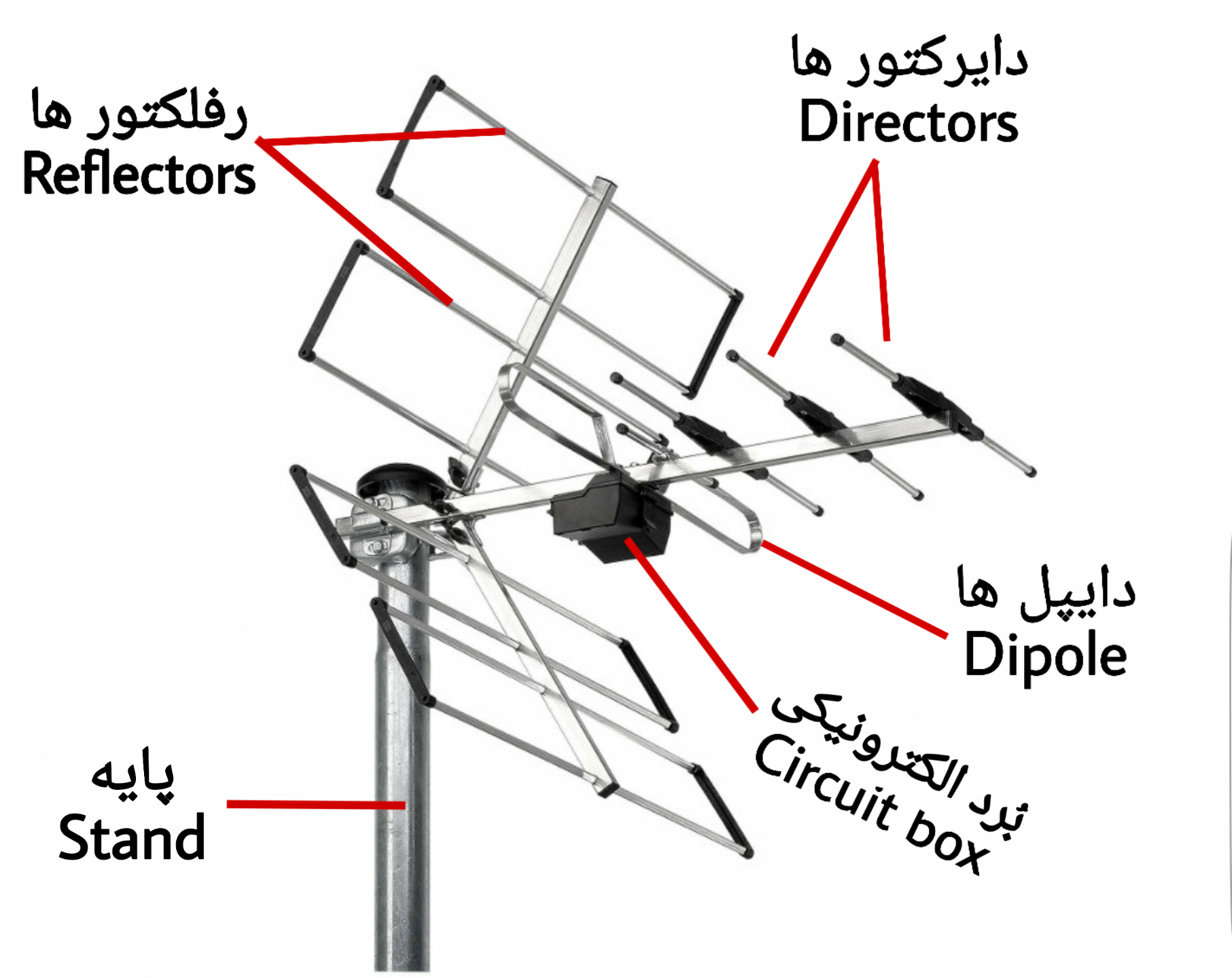 Persian antenna